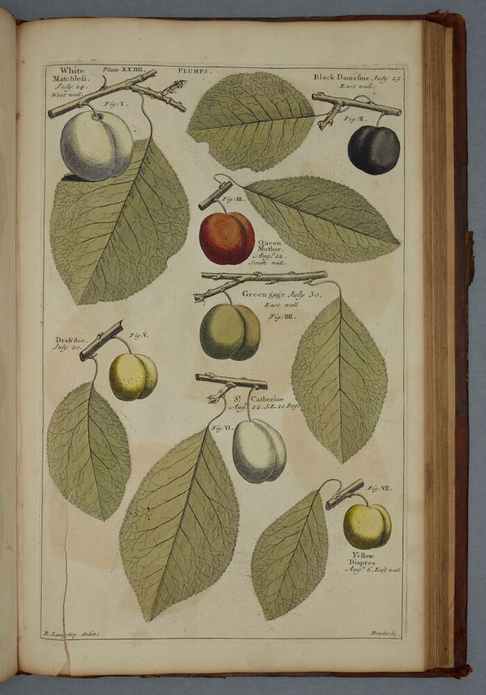 Plate 24, showing different varieties of plums.